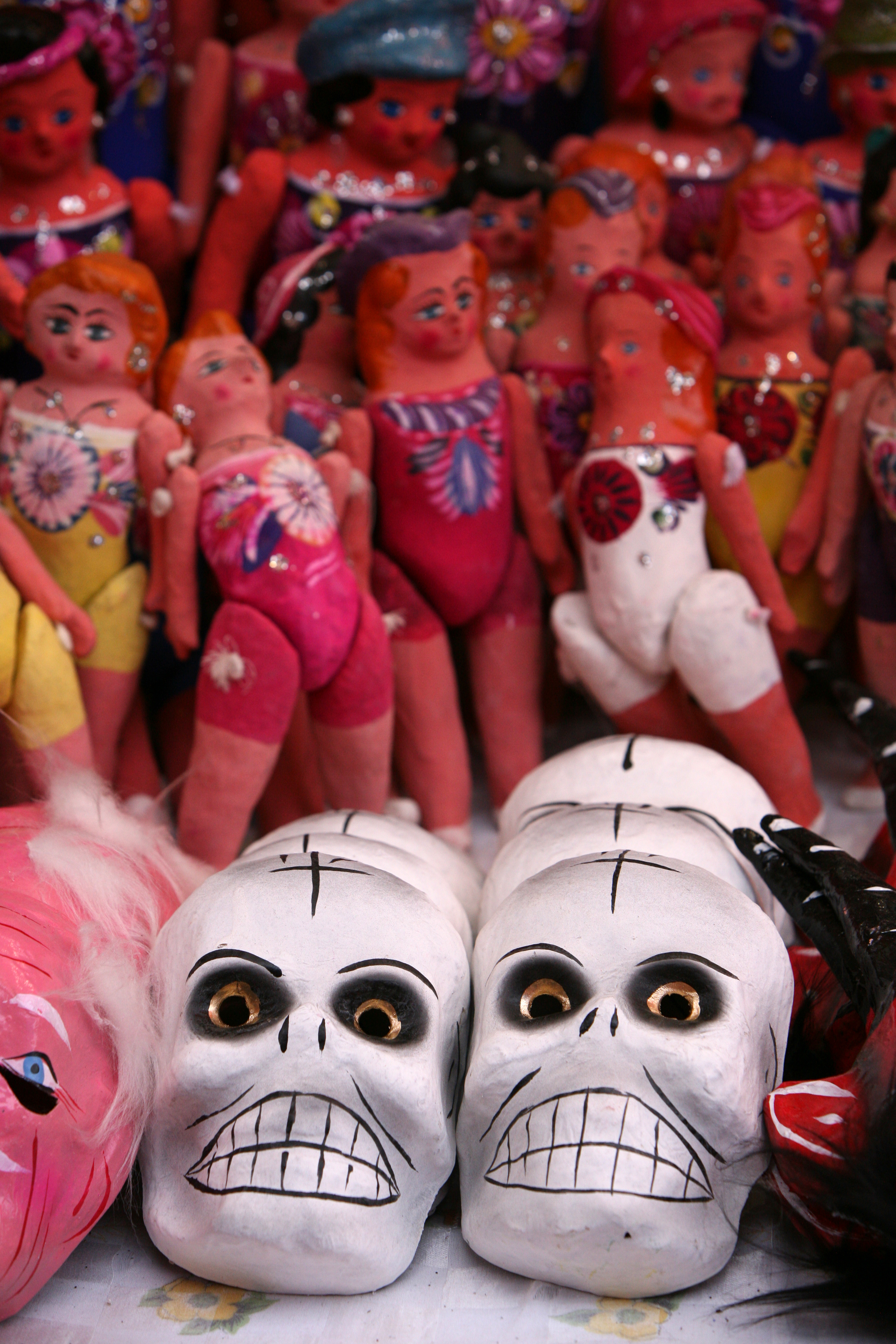 Paper mache figures typical of Corpus Christi day in Mexico.